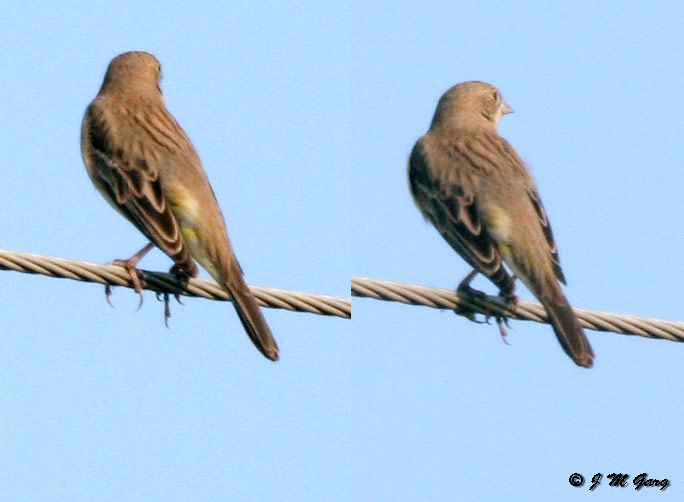 Red-headed Bunting Emberiza bruniceps in Kinnerasani Wildlife Sanctuary, Andhra Pradesh, India.